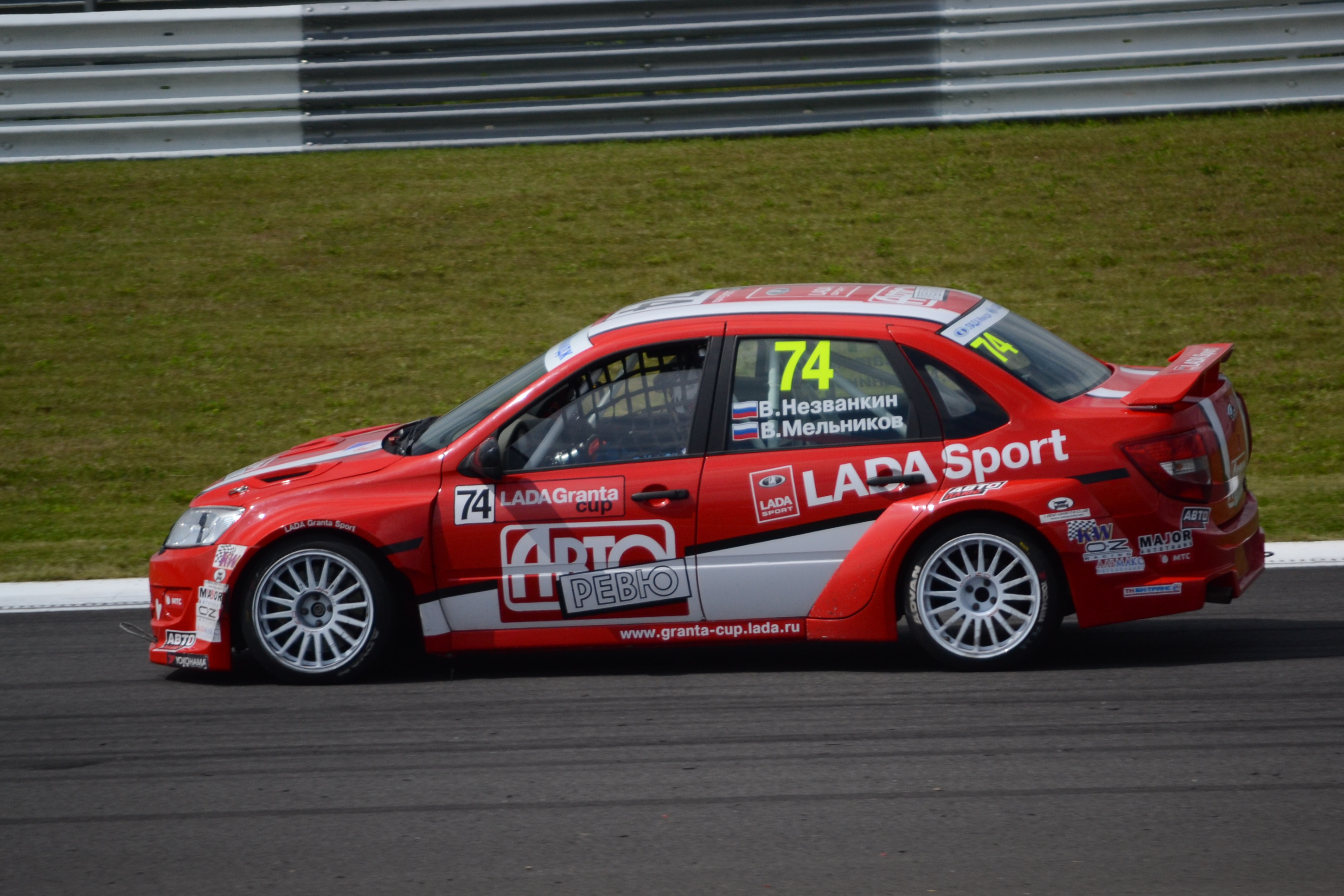 Lada Granta Cup, Moscow Raceway 2013